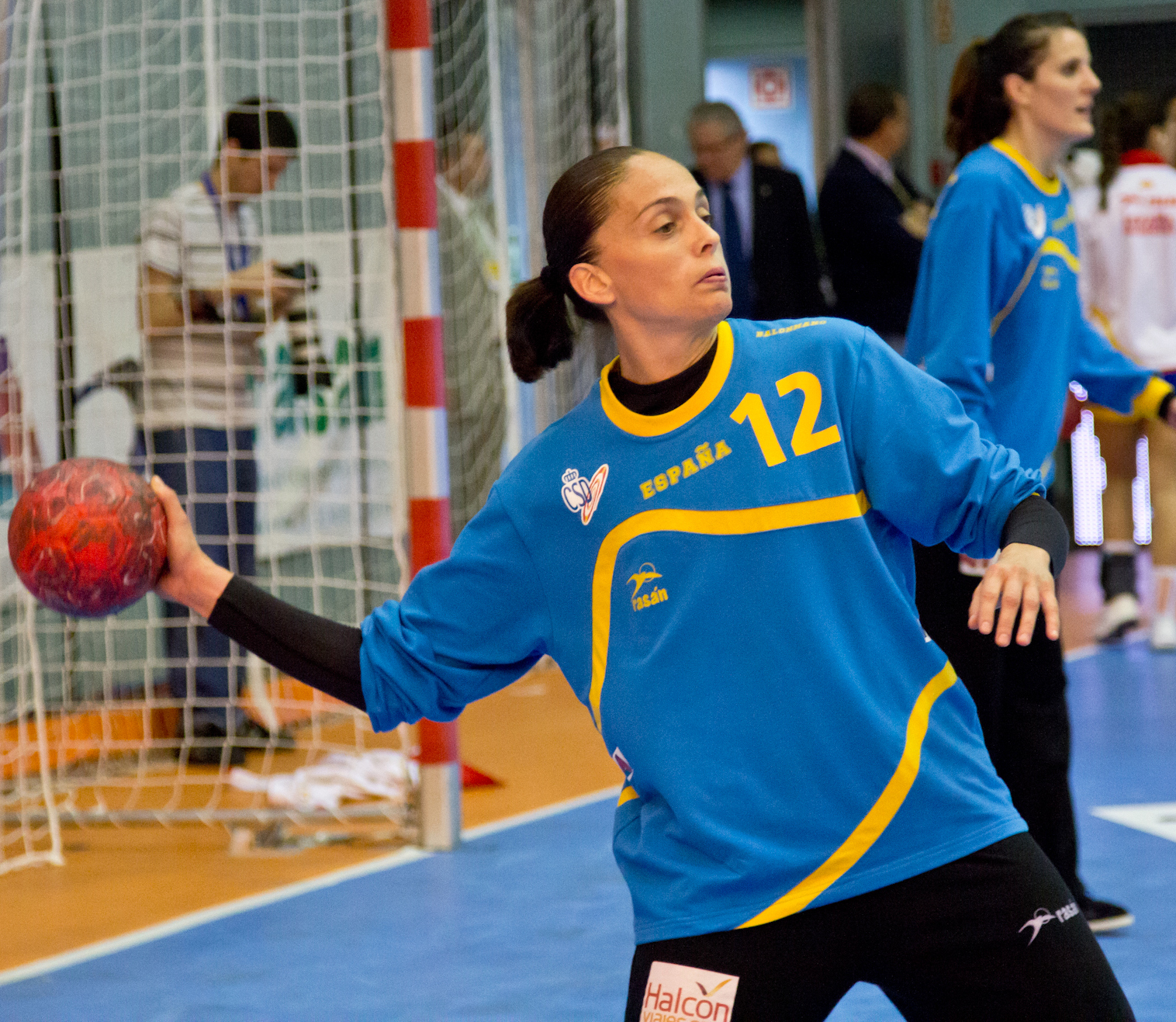 Silvia Navarro at the all Star Game 2013, held in San Sebastián de los Reyes, Madrid, Spain.